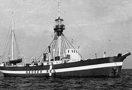 The Lightvessel No. XVOO Gedser Rev photographed at Gedser Rev in Denmark in c. 1948.